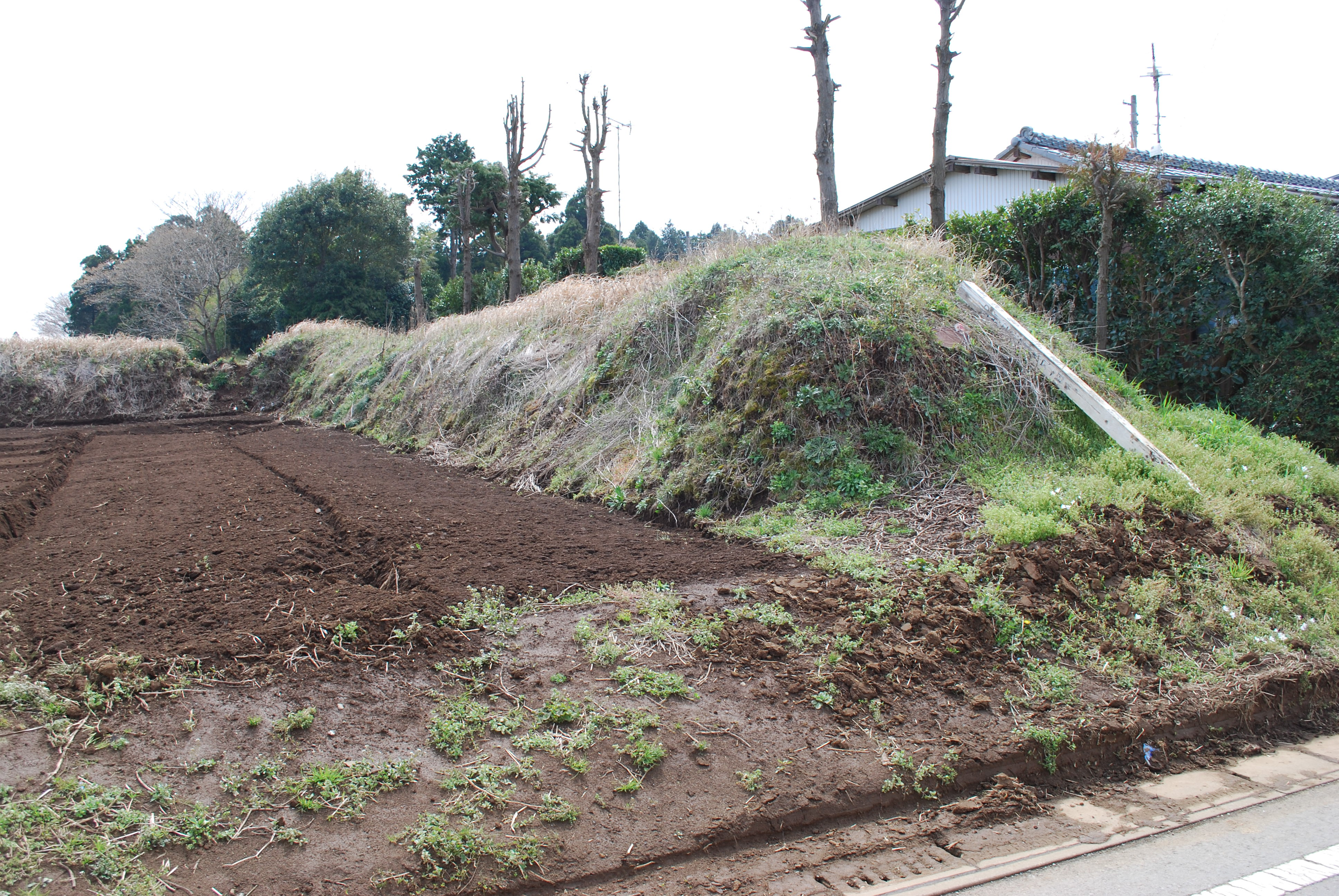 Embankment of the wall of the grazing land of the horse,Noma-dote,Katori-city,Japan